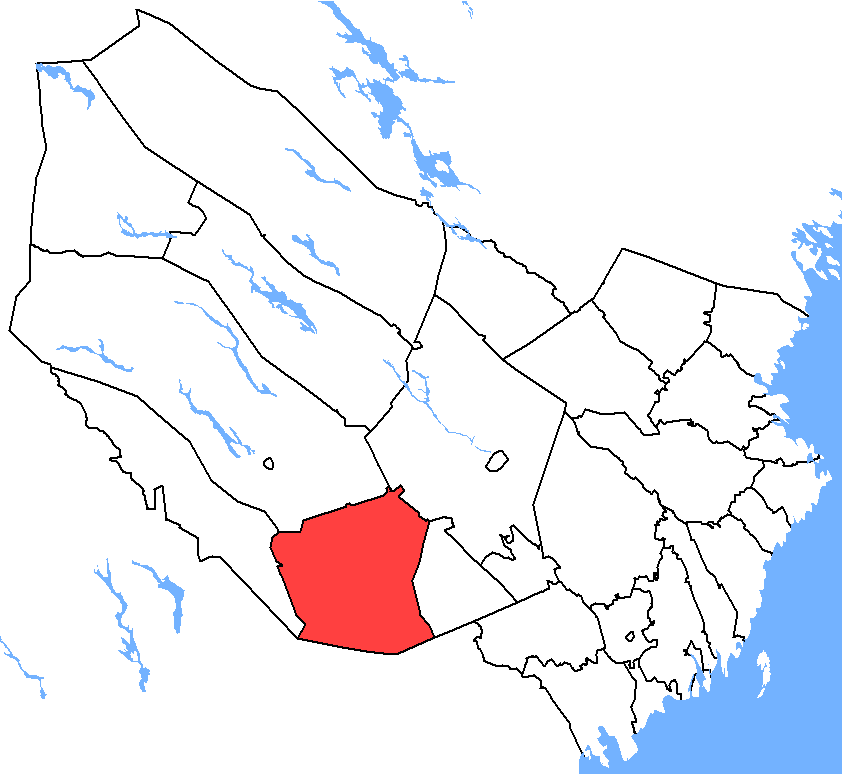 Åsele municipality of Västerbotten County 1952.